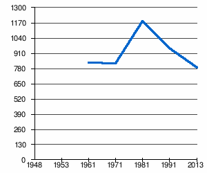 Population dynamics after Šiprage